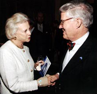 A picture of Sandy D'Alemberte with Justice Sandra Day O'Conner from the Library of Congress website.